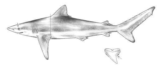 Night shark (Carcharhinus signatus), from Grace, M. (2001). "Field Guide to Requiem Sharks (Elasmobranchiomorphi: Carcharhinidae) of the Western North Atlantic". NOAA Technical Report NMFS 153.